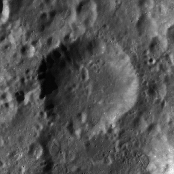 Coblentz crater, on the far side of the moon. LRO Wide Angle Camera mosaic.